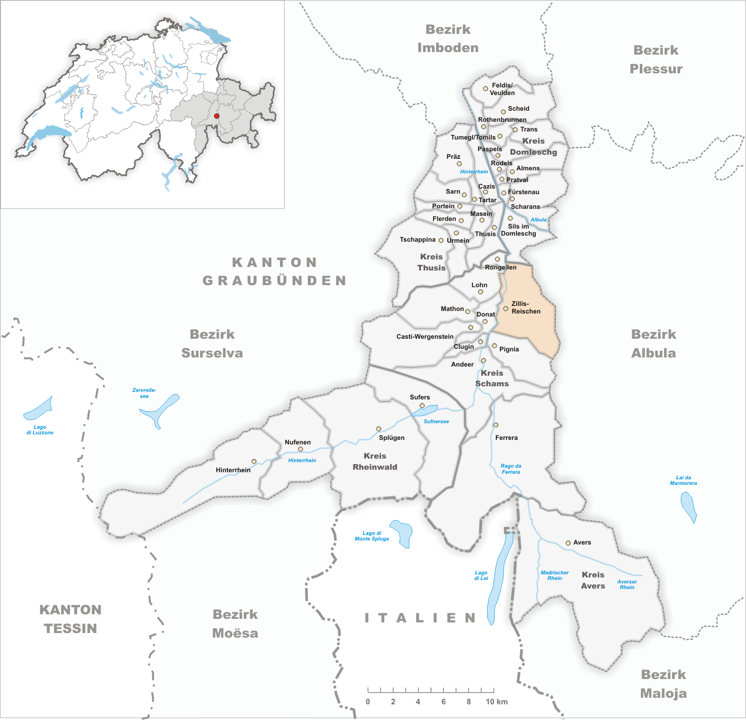 Municipality Zillis-Reischen